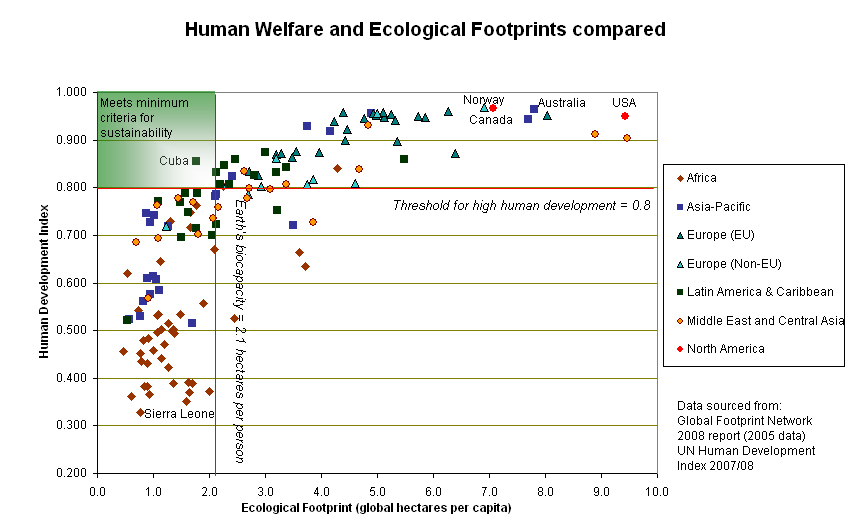 Graph showing Human Development Index and Ecological Footprint. The "sustainable" criteria of ecological footprint within global capacity, and human development index above 0.8, is shaded.